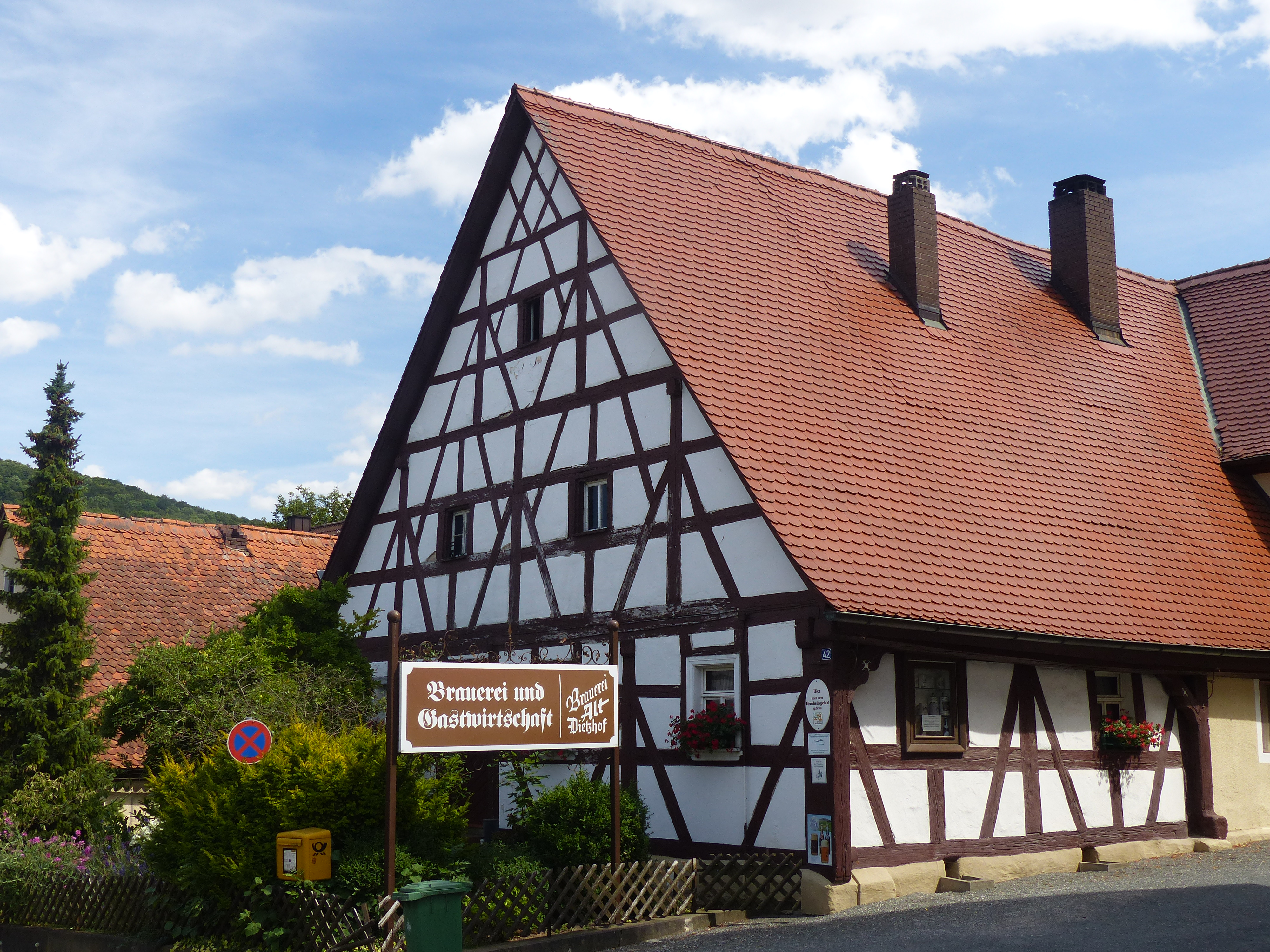 A inn in the village Dietzhof, a district of the municipality of Leutenbach.